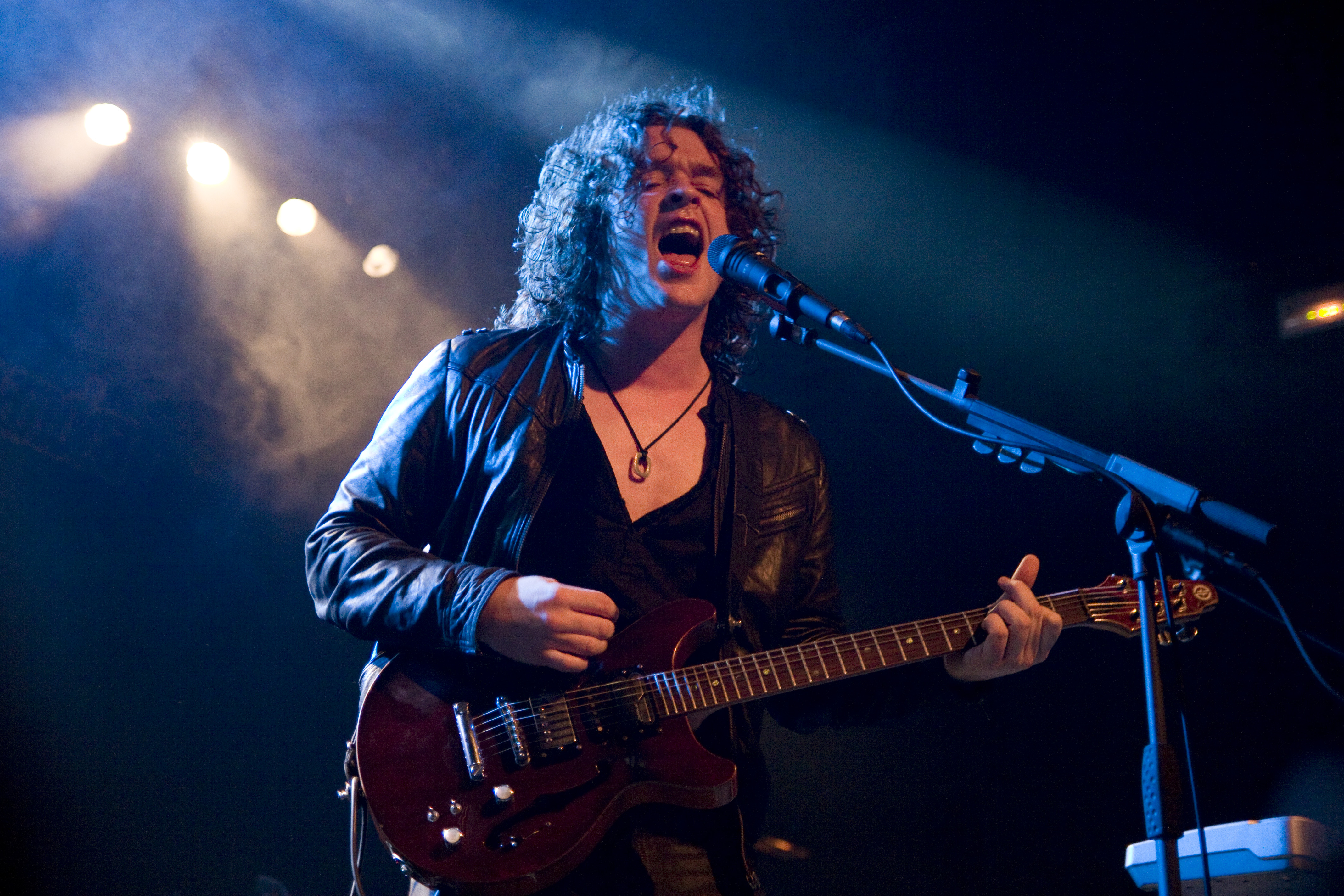 Vincent Cavanagh (Anathema) in concert in Barcelona, Spain.